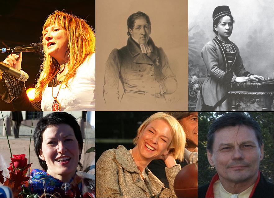 A collage of six well-known people with Sámi heritage (not to say all are Sami)